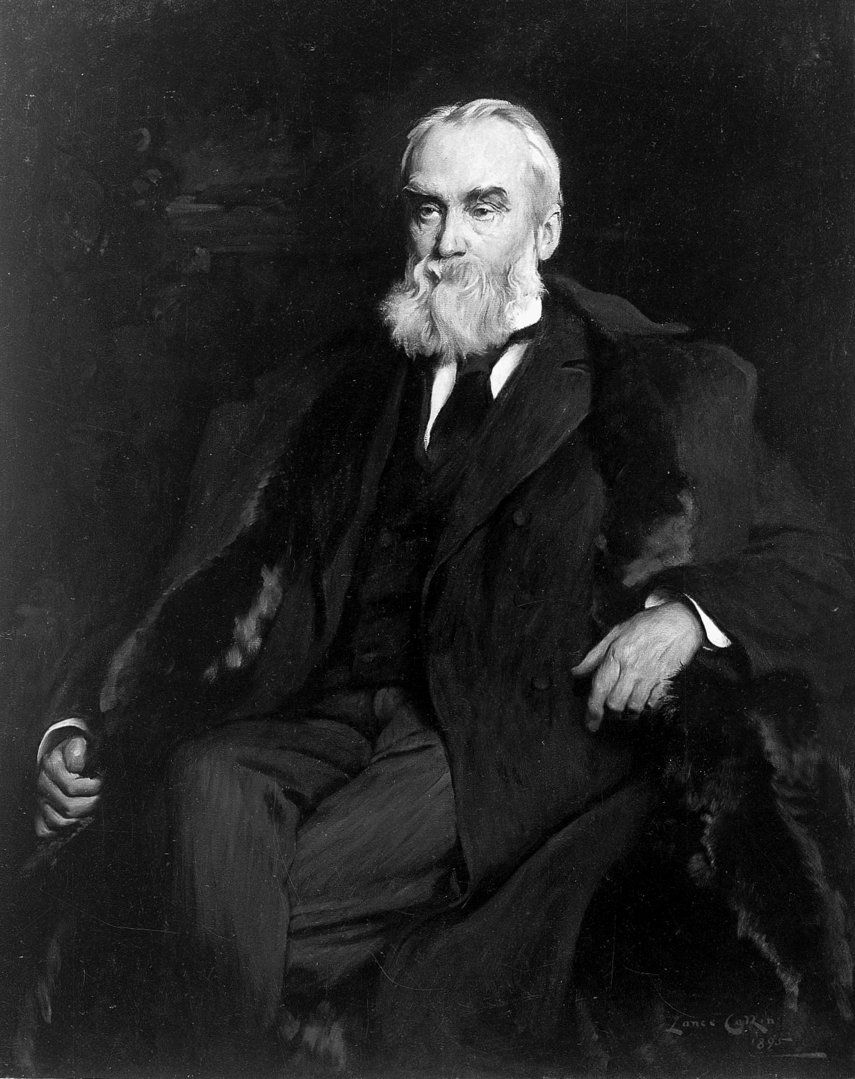 John Hughlings Jackson. Photogravure after L. Calkin, 1895. John Hughlings Jackson, who is regarded by many as the father of British neurology. He published his Croonian lectures on the evolution and dissolution of the nervous system in The Lancet in 1884. His lectures picked up the revolutionary insights of Charles Darwin and the extension of those ideas to human mental and moral life by Herbert Spencer, and used that framework to analyse neurological and psychiatric disorders seen in late 19th-century clinical life. Iconographic Collections Keywords: John Hughlings Jackson